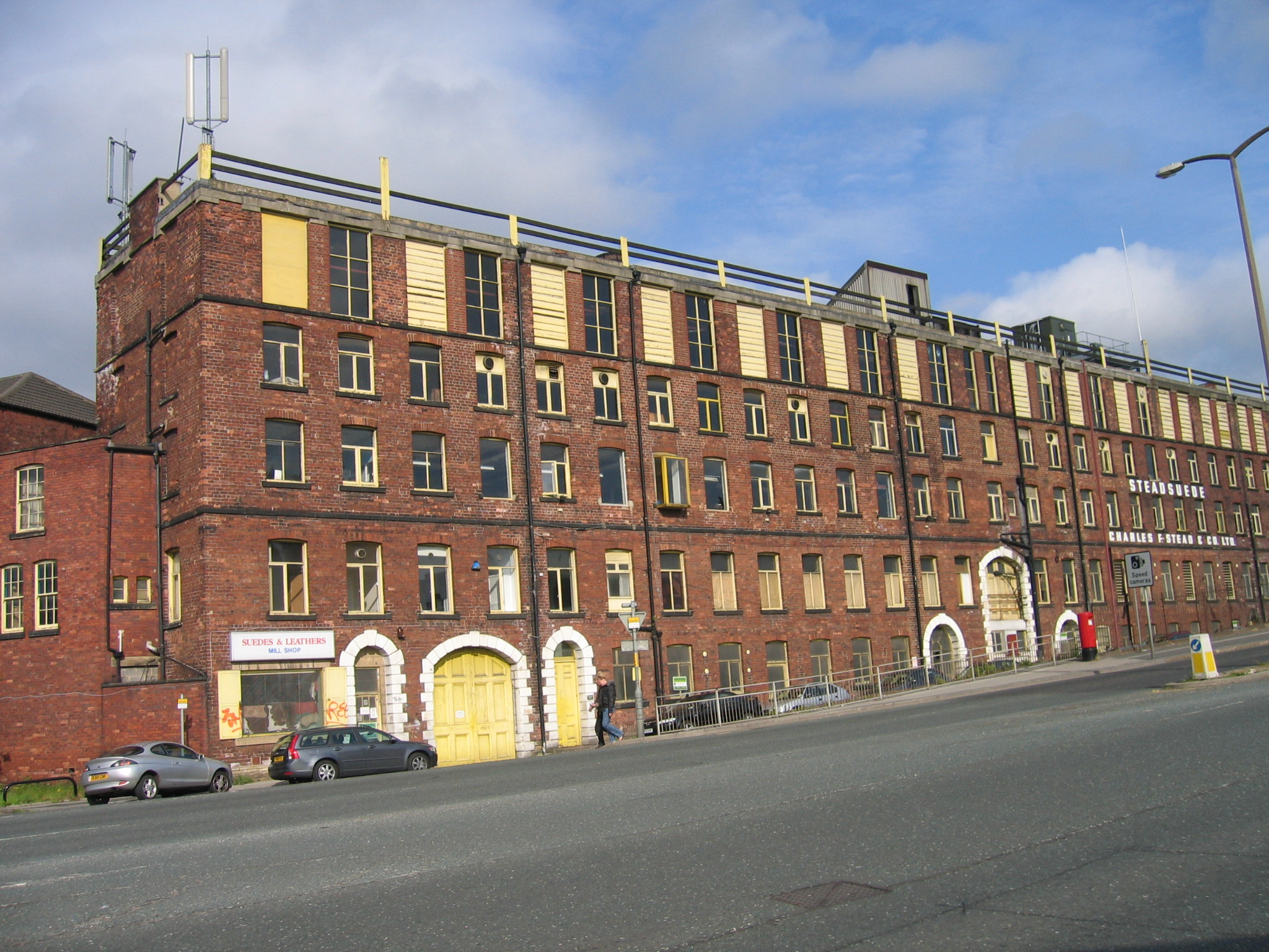 Sheepscar Tannery, Leeds LS7 2BY. Charles F. Stead.